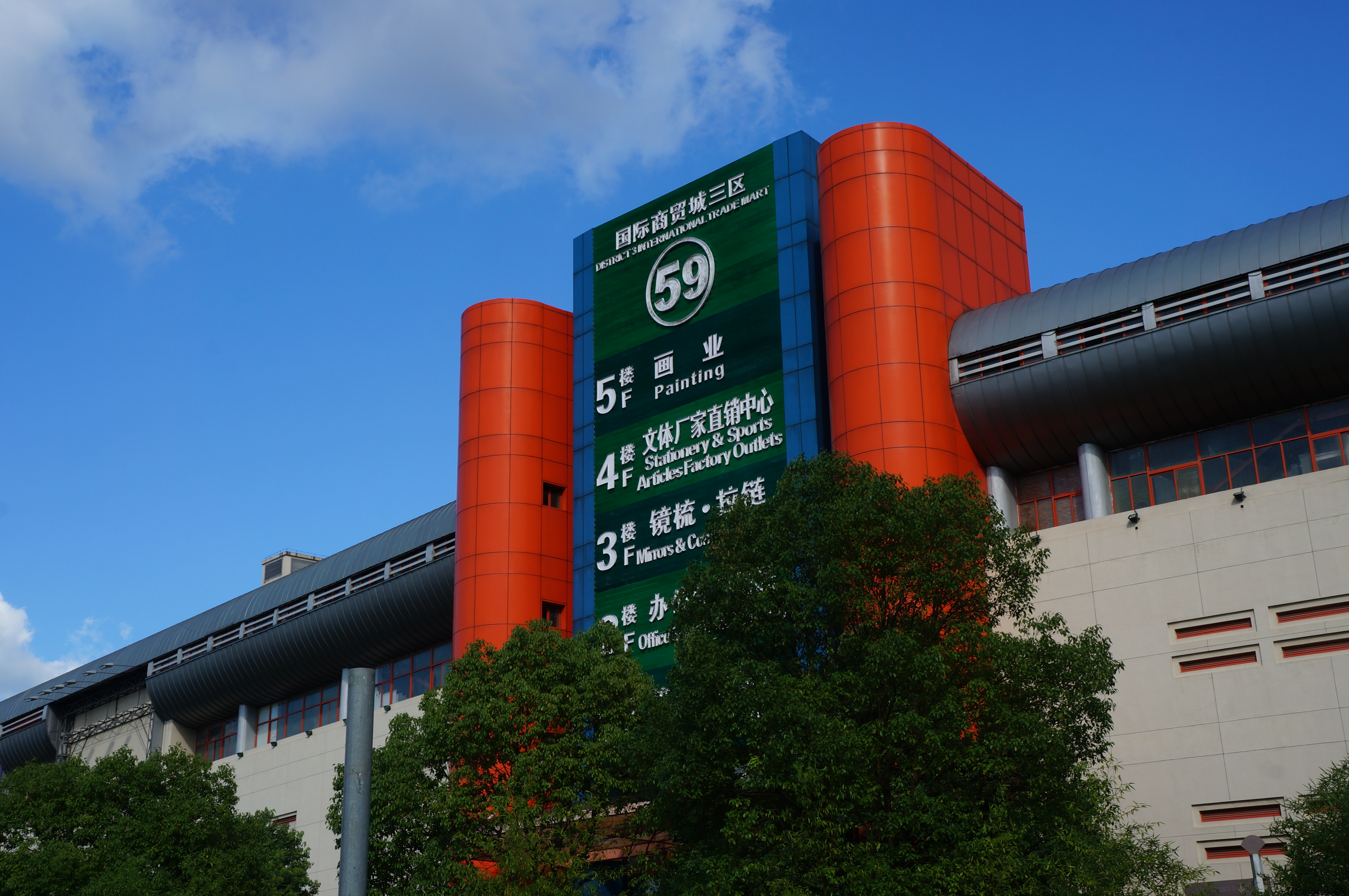 Yiwu International Trade Mart - District 3, Gate 59.jpg